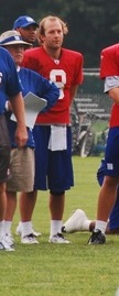 New York Giants QB Tim Hasselbeck at 2007 training amp